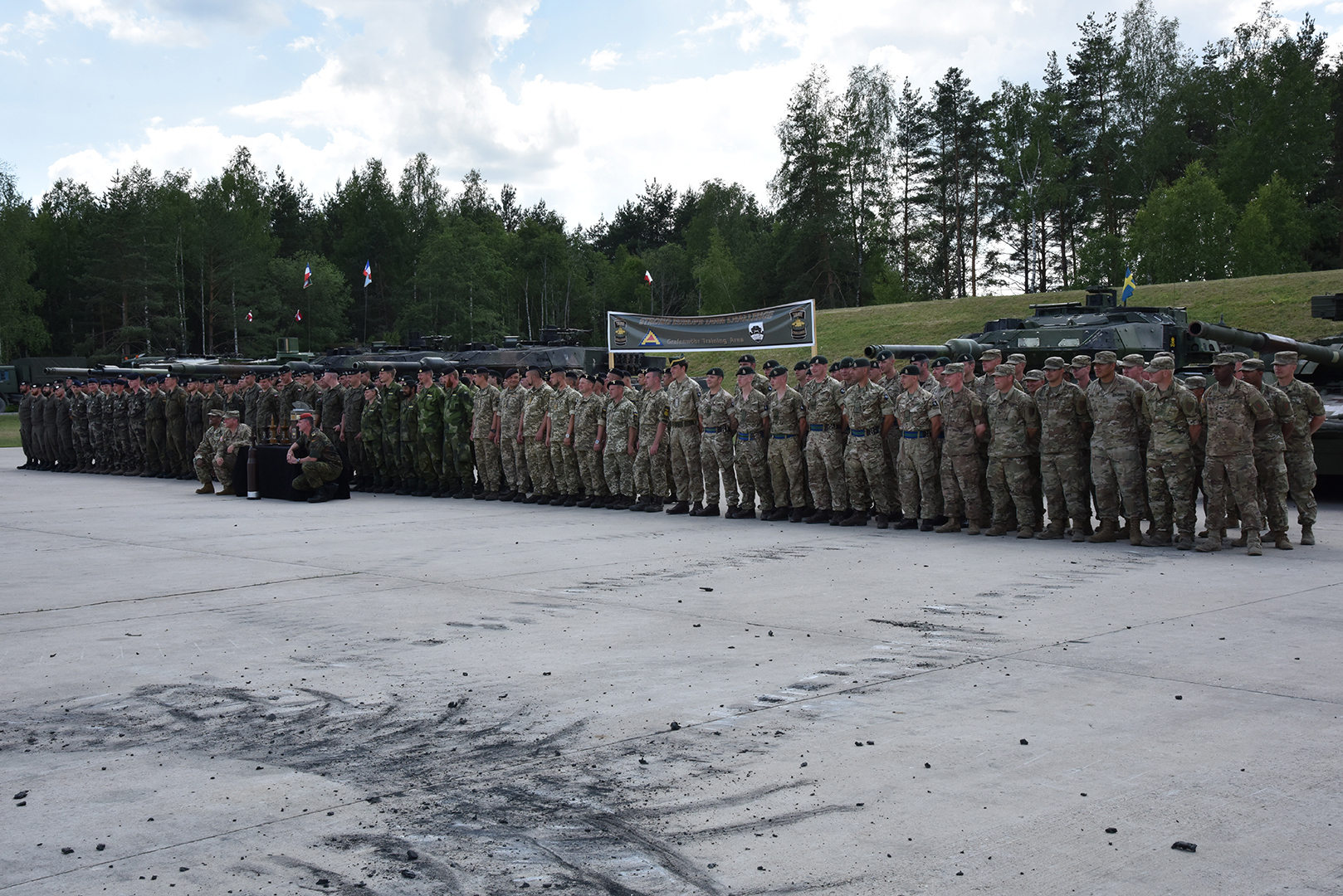 Tank Platoons from Austria, France, Germany, Poland, Sweden, Ukraine, the U.K., and the U.S. will participate in the Strong Europe Tank Challenge, held at 7th Army Training Command’s Grafenwoehr Training Area, June 3, 2018. U.S. Army Europe and the German Army co-host the third Strong Europe Tank Challenge at Grafenwoehr Training Area, June 3 – 8, 2018. The Strong Europe Tank Challenge is an annual training event designed to give participating nations a dynamic, productive and fun environment in which to foster military partnerships, form Soldier-level relationships, and share tactics, techniques and procedures. (U.S. Army Photo by Lacey Justinger, 7th Army Training Command)